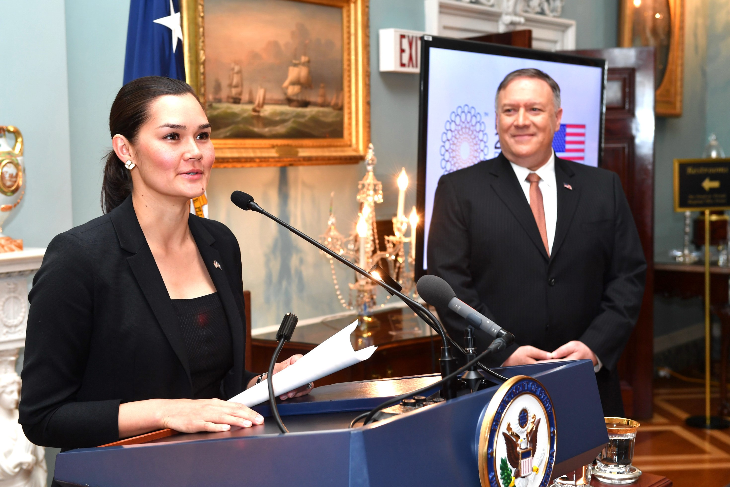 U.S. Secretary of State Michael R. Pompeo listens as Assistant Secretary for Public Affairs Michelle Giuda delivers remarks at a reception supporting the U.S. Pavilion at Expo 2020, at the U.S. Department of State in Washington D.C. on July 29, 2019. [State Department photo by Michael Grossman/Public Domain]